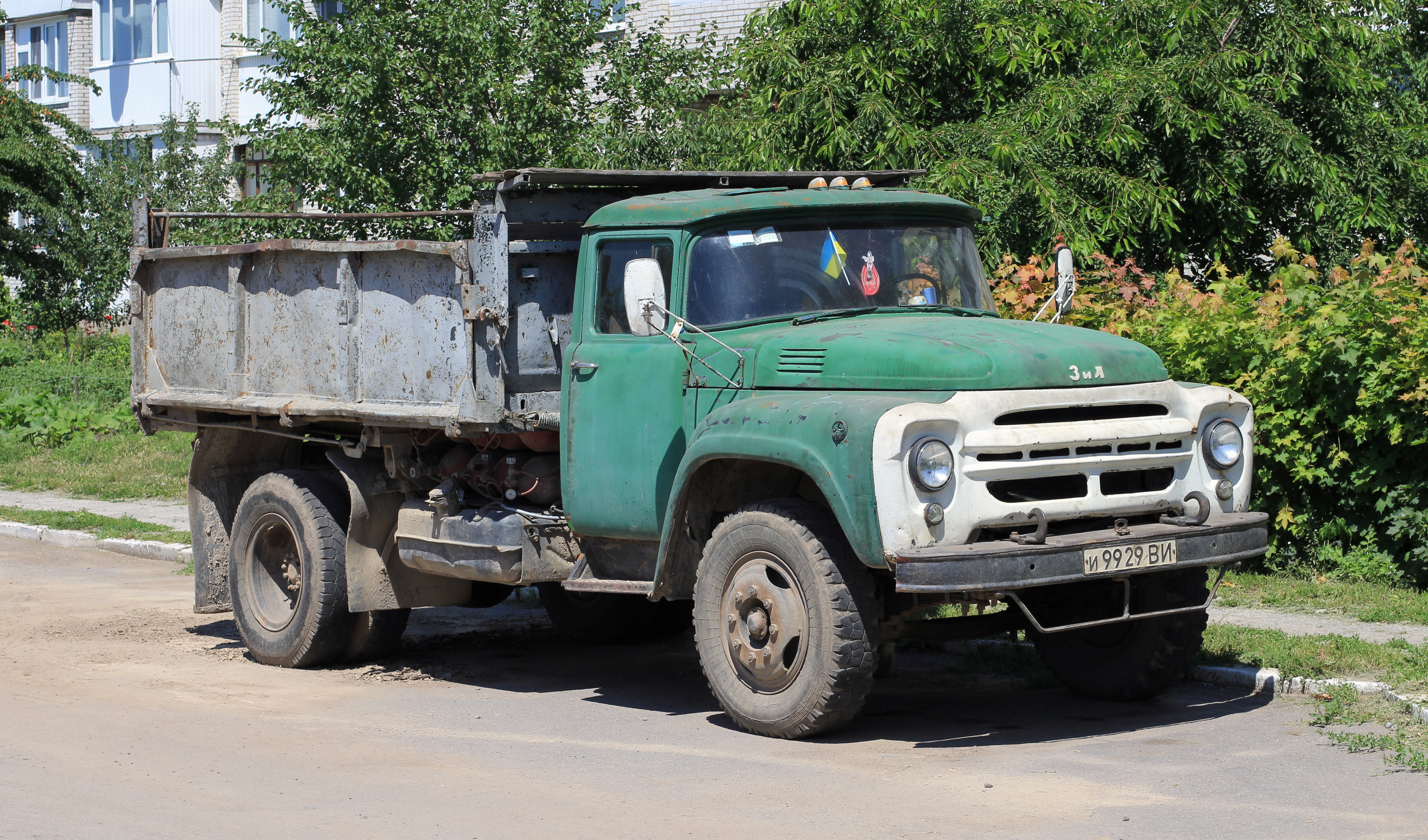 Old Soviet truck ZiL-130, early modification. Ukraine, Vinnitsa.